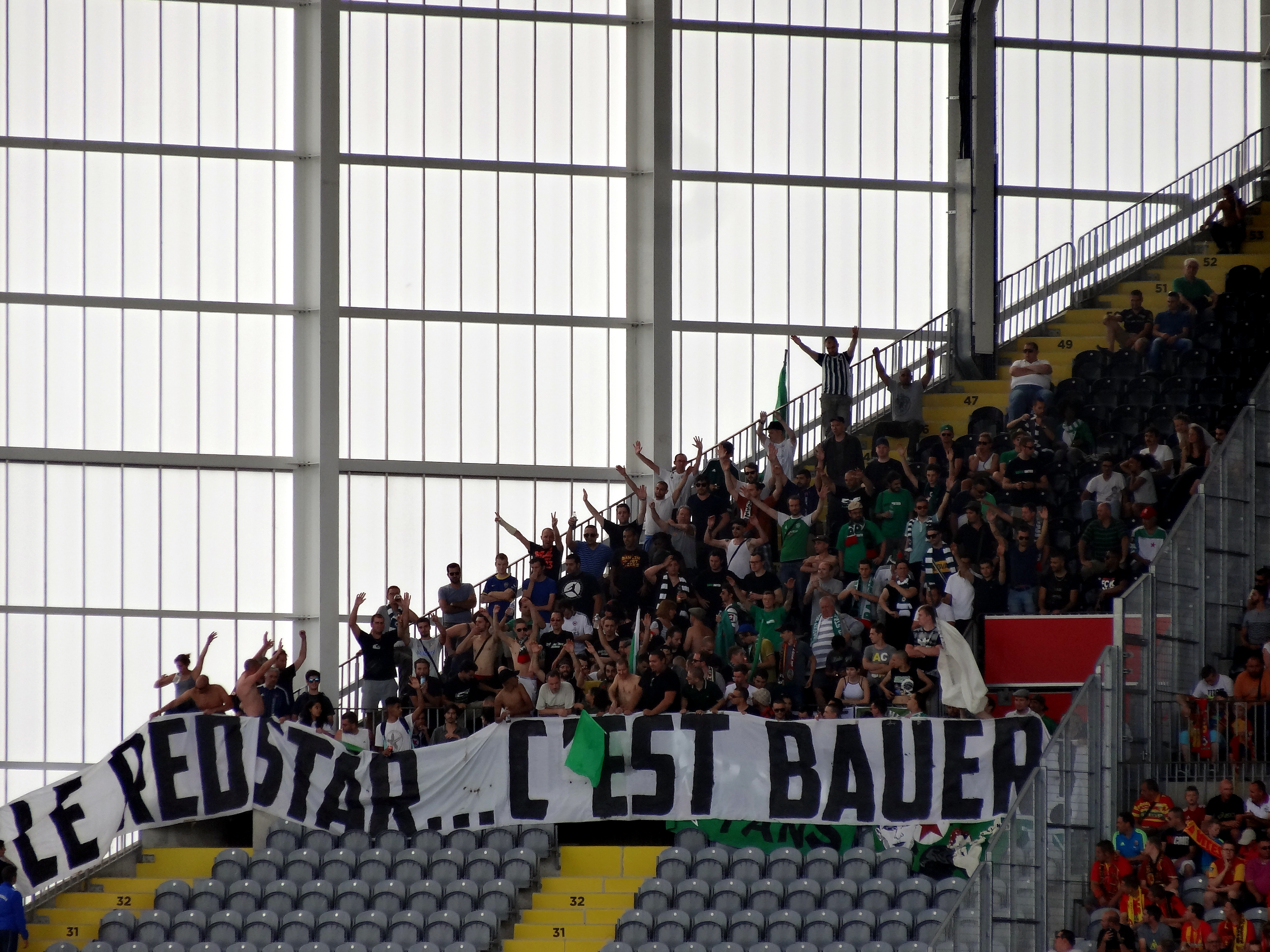 Red Star Football Club supporters